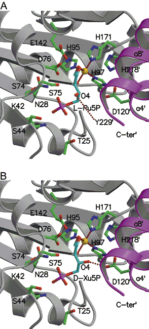 The active site of L-Ru5P bound to A: ribulose 5-phosphate and B: xylulose 5-phosphate